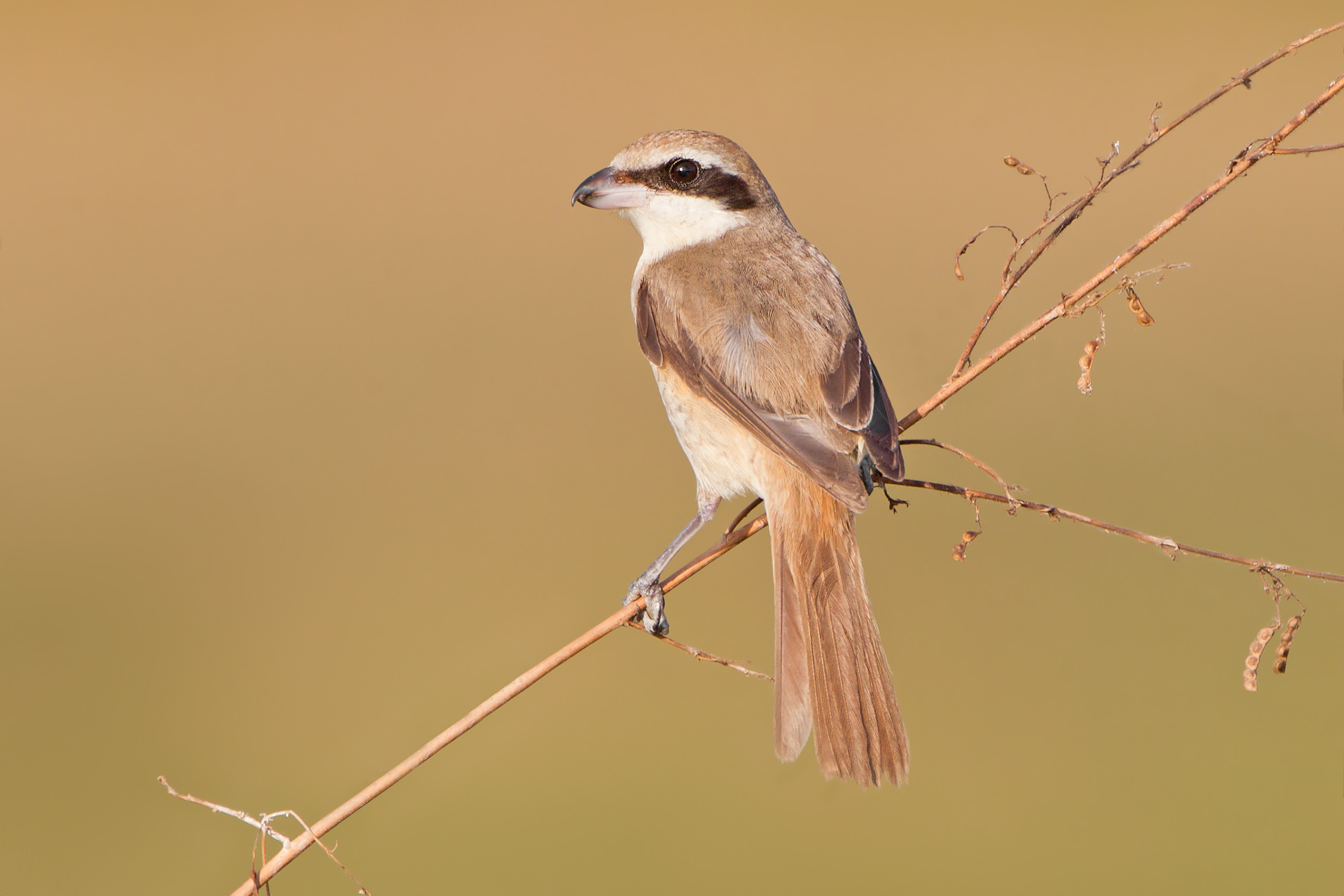 Brown Shrike (Lanius cristatus), Surin, Thailand